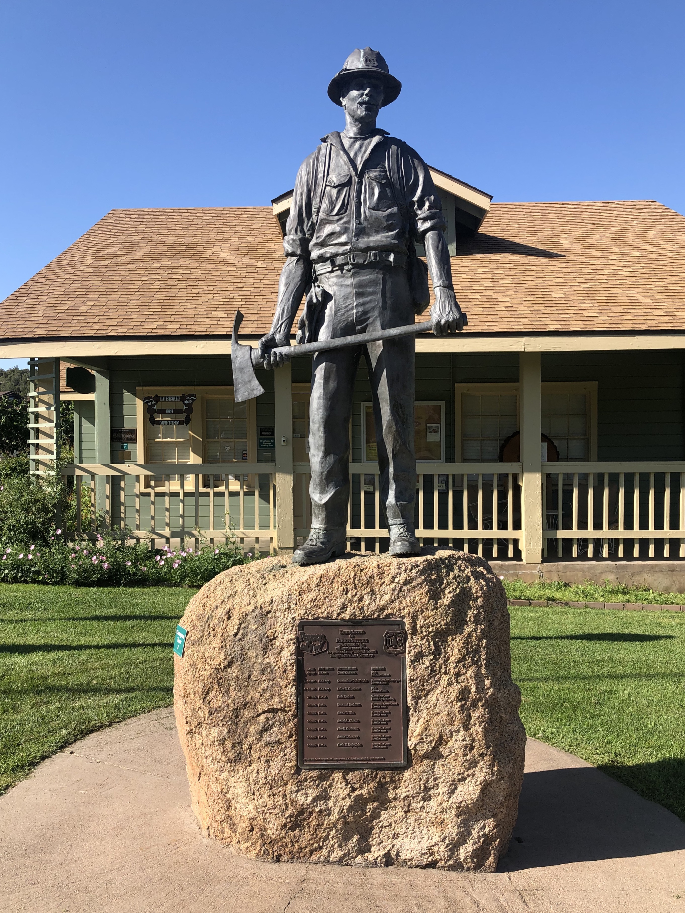 Mogollon Rim Country Firefighter Memorial - Rim Country Museum - Payson, Arizona. The plaque lists the dates, fires and the names of the firefighters who perished.